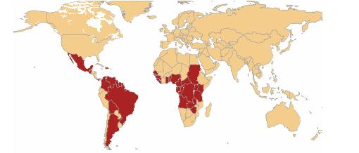 Mansonelliasis (or mansonellosis) is the condition of infection by the nematode Mansonella. The disease exists in Africa and tropical Americas, spread by biting midges or blackflies. It is usually asymptomatic.